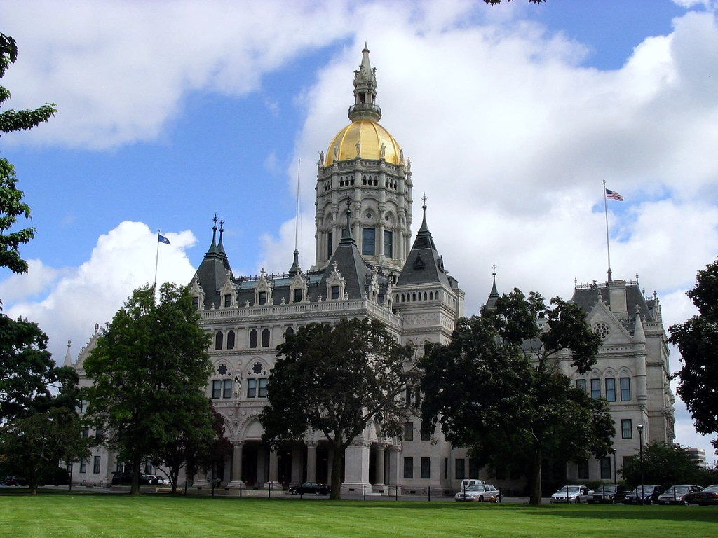 One of the more beautiful state capitols, both the exterior and interior.